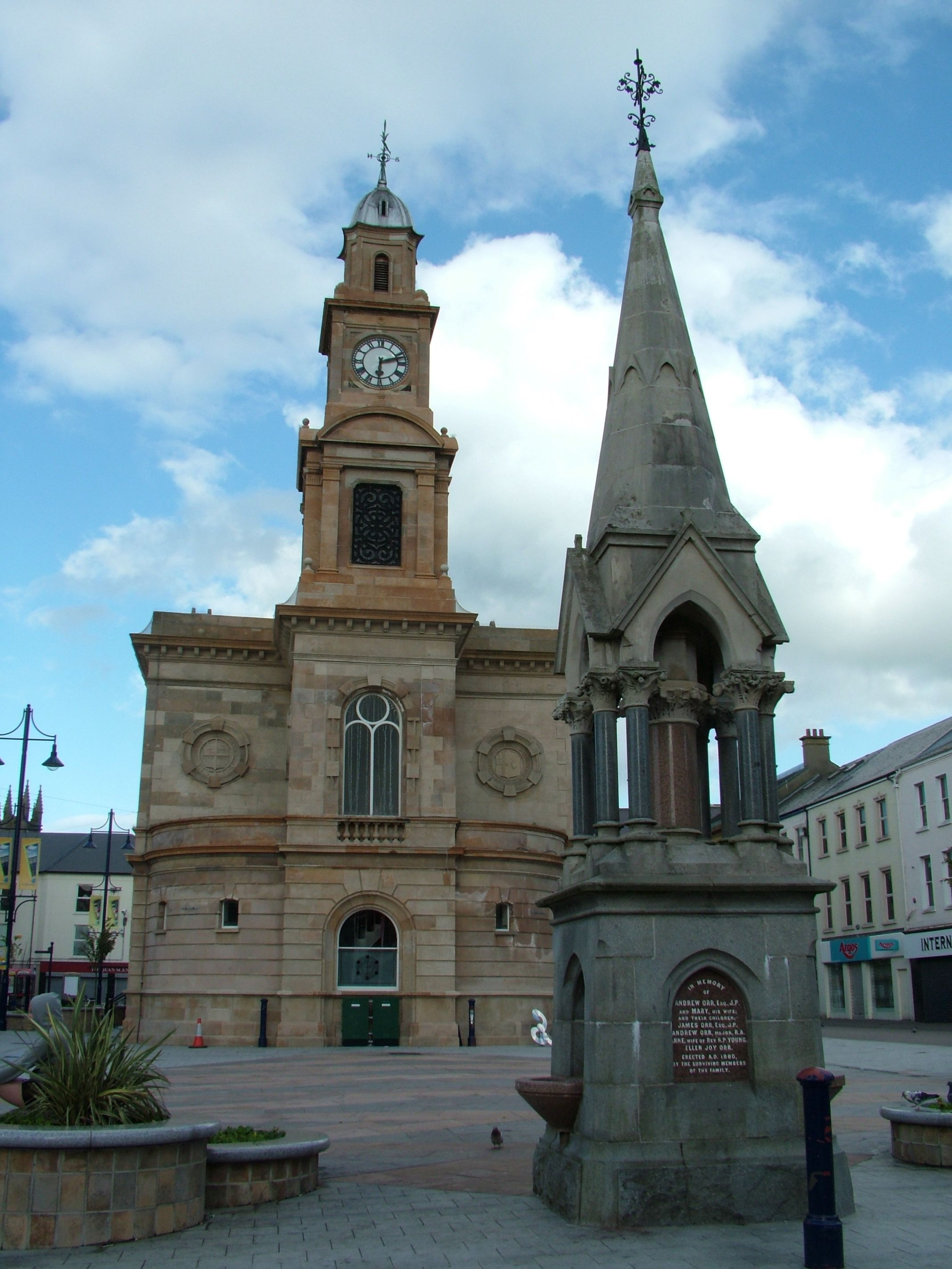 Coleraine, Northern Ireland, Stadtmitte